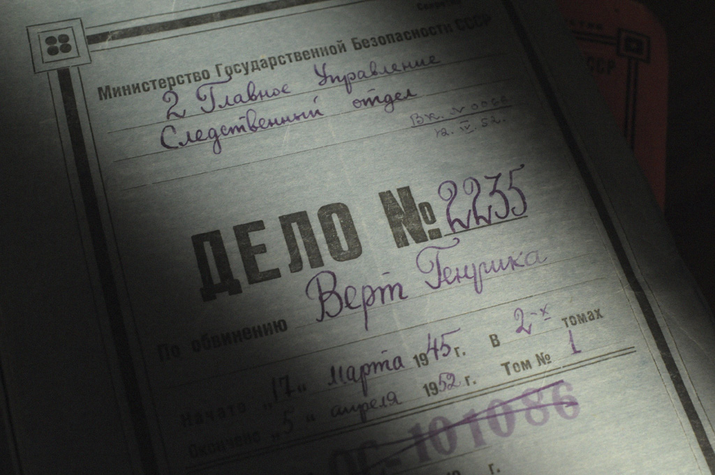 “Files from FSB archives”. Henrik Werth's file from the criminal cases fund of the FSB Central Archives.